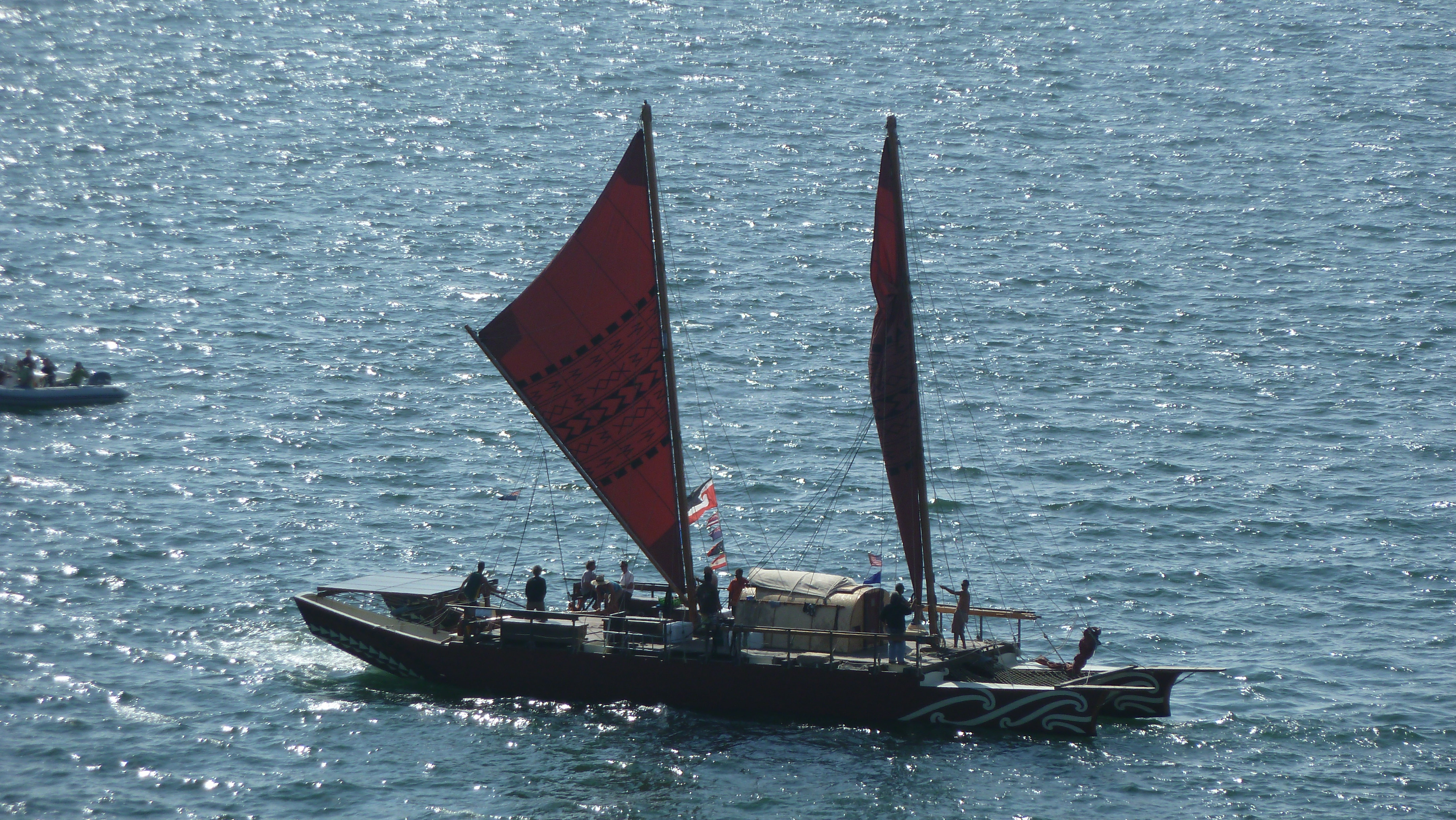 Taken at the 2011 Festival of Sail in San Diego, California. Haunui waka is part of a conversation, a korero about reviving those traditions and conversations and knowledge of our Pacific ancestors. Commemorating Tainui kaumatua Hone Haunui, kaitiaki Hoturoa Barclay-Kerr chose to honour Hone Haunui for years his support and sage guidance when it came to waka. He was a man respected and recognised for his matauranga and in his lifetime launched many waka. Sadly Hone passed away in December 2010 Hone Haunui was also involved in Te Mana o te Moana as he was the kaumatua who performed the launching karakia and ceremonies for Hinemoana, one of the waka in the family of canoes that will be travelling the Pacific. The hulls of the waka are also named – Pikikōtuku (the ascending white heron) for the female port hull. The male starboard hull is named Wharetoroa (house of the albatross). The steering hoe has been given the name Te Whare Hukahuka Tangata (The foam house of the sea god). The Haunui waka is for all iwi and owned by all nations.